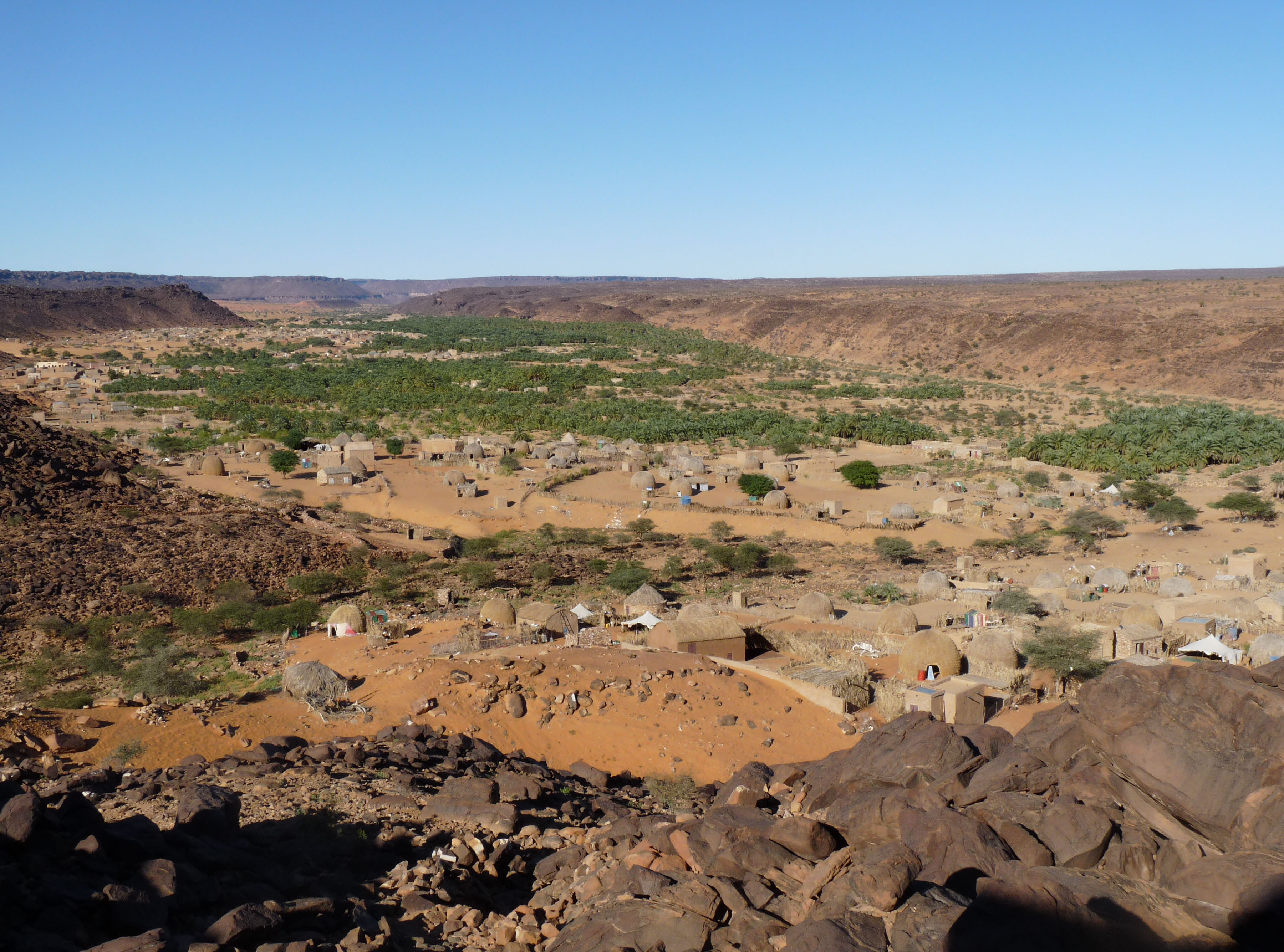 Oasis of Mhaïreth (Adrar, Mauritania)